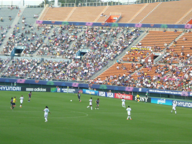 2012 FIFA U-20 Women's World Cup 3rd. Place Match: JPN vs NGA